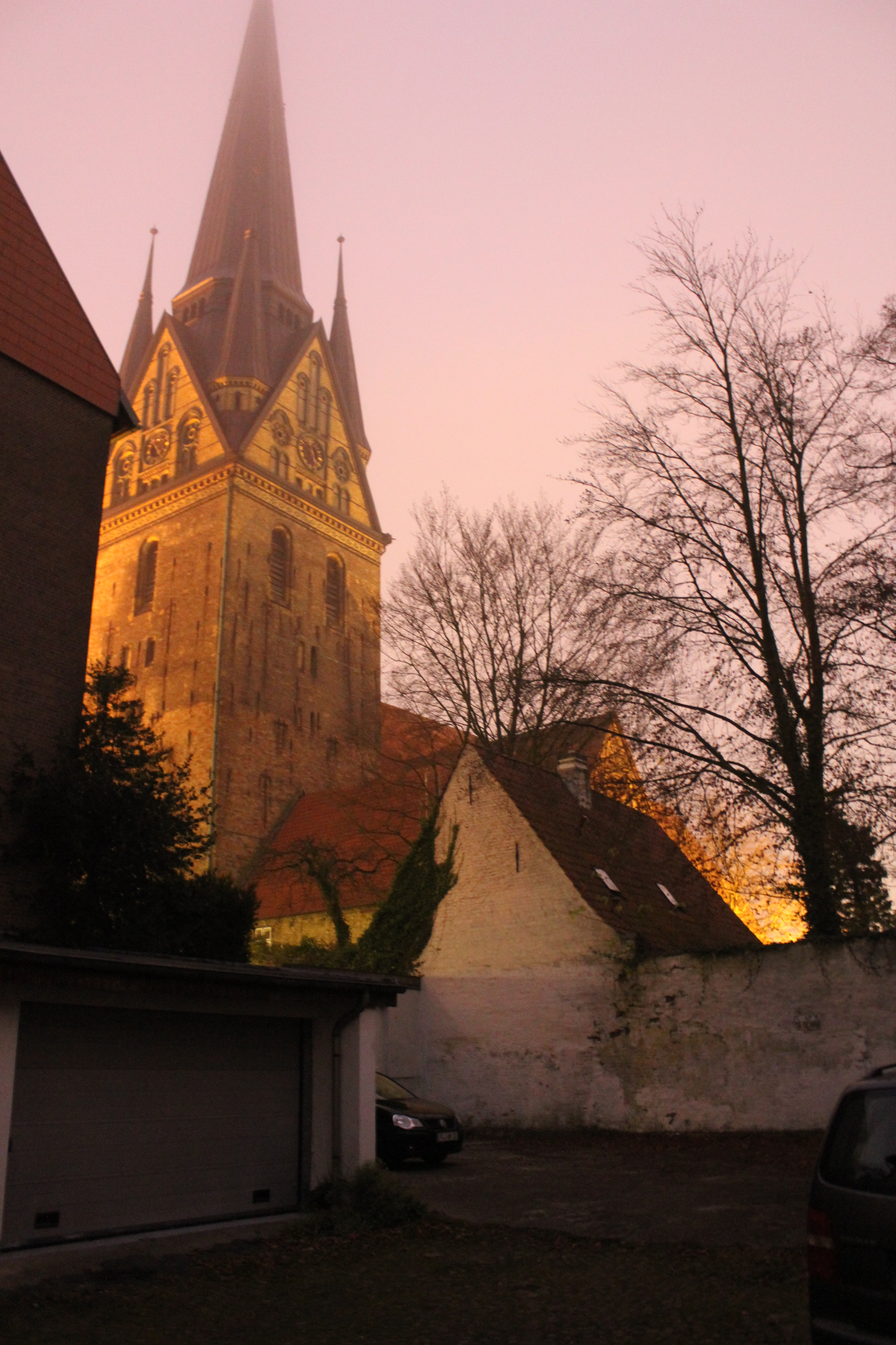 Town wall / City wall of Flensburg